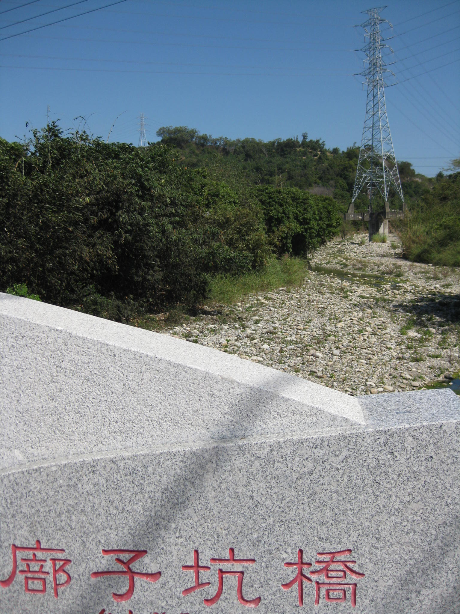 Buzi River is also called Buzikeng River. Buzikeng Bridge over the Buzi River in Buzikeng,on the border of Taichung City and Taichung County.中文（台灣）: 廍子溪可稱作廍子坑溪。廍子坑橋在廍子坑橫跨廍子溪，是台中縣市的界橋。